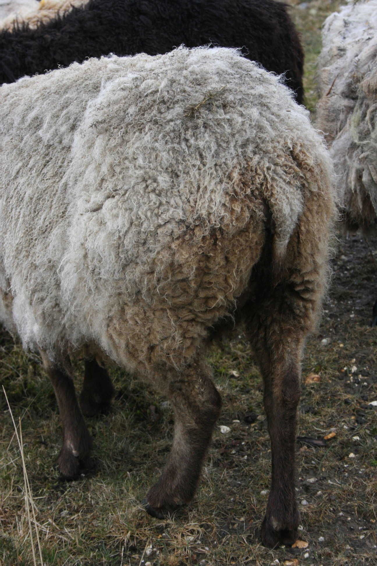 Shetland sheep tail, showing characteristic short tail of northern short-tailed sheep. Seaxpenne Esther, 4-year-old fawn katmoget ewe.